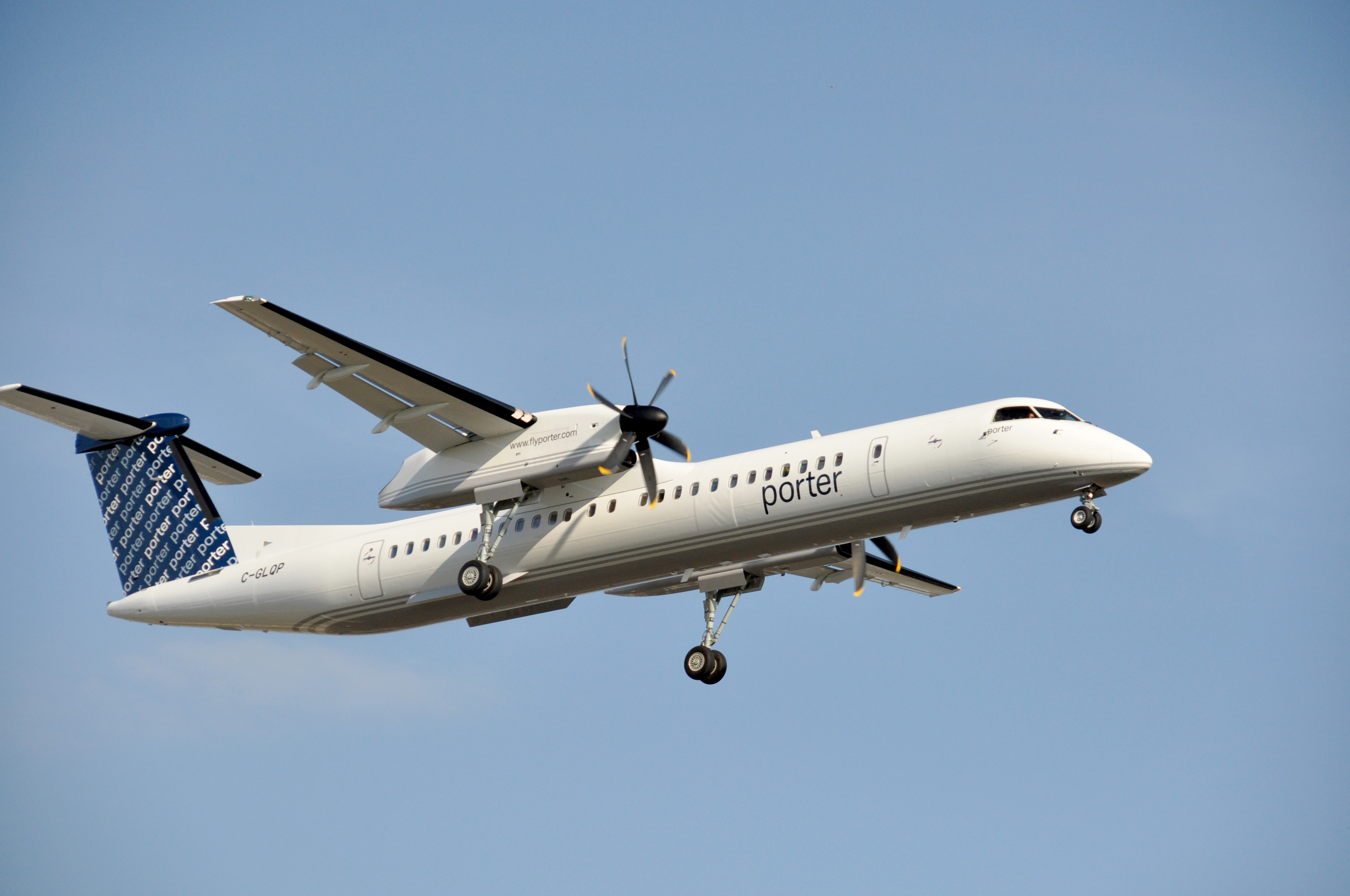 Porter Airlines Dash-8 landing at Montréal-Pierre Elliott Trudeau International Airport (YUL) in September 2009.